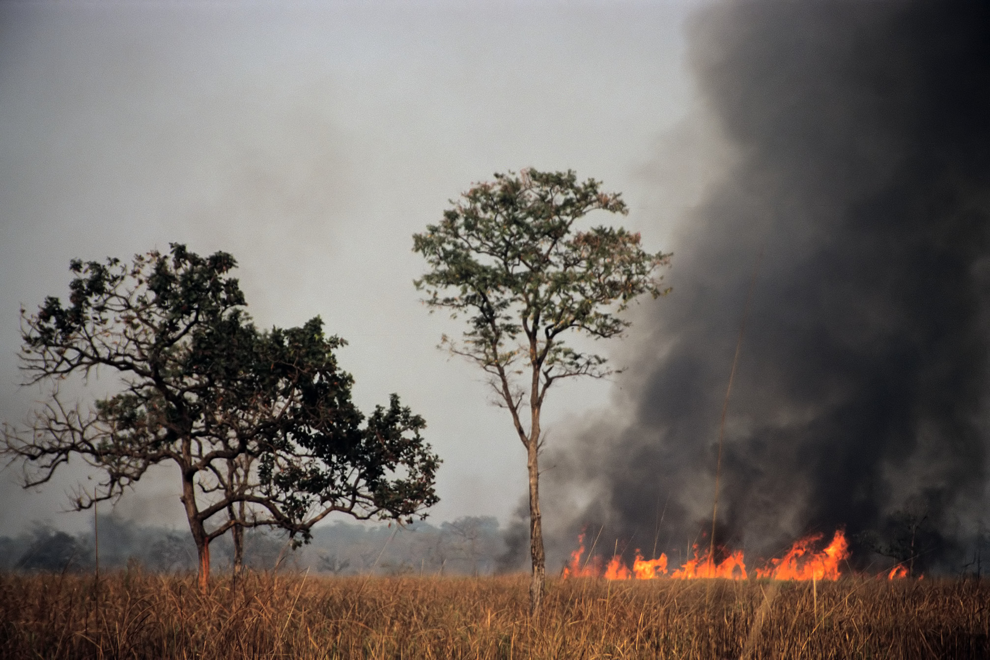 Kaziranga National Park is situated on the south bank of the Brahmaputra river in Assam, India. It is famous as a refuge for the Indian or one-horned rhinoceros (Rhinoceros unicornis). Stretching over an area of 430 km², Kaziranga is one of the last refuges of the Indian rhino. The national park is a vast stretch of coarse, tall elephant grass, marshland and dense tropical moist broadleaf forests.